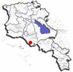 Location map for Ararat, Armenia.